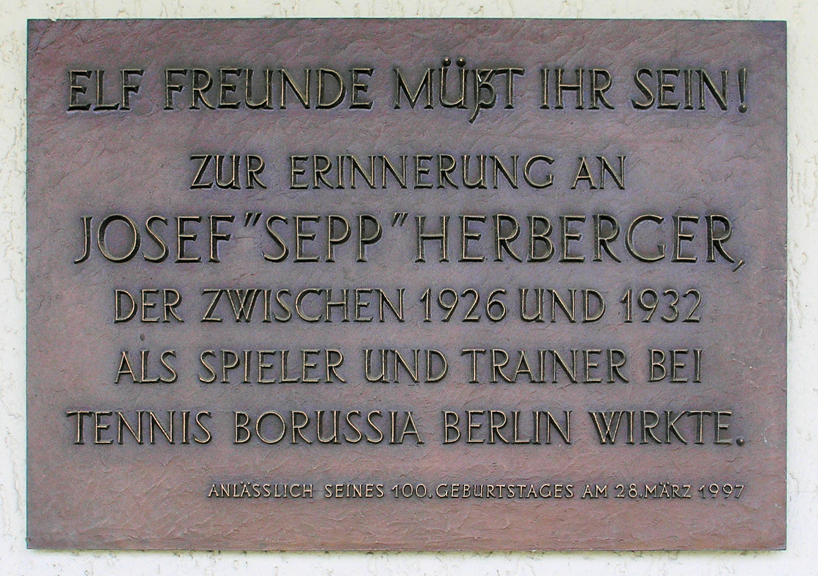 Memorial plaque, Sepp Herberger, Waldschulallee 34, Berlin-Westend, Germany Koordinate:52°30′3″N 13°15′50″E / 52.50083°N 13.26389°E